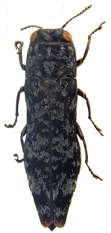 Agrilus inamoenus Kerremans, 1892.